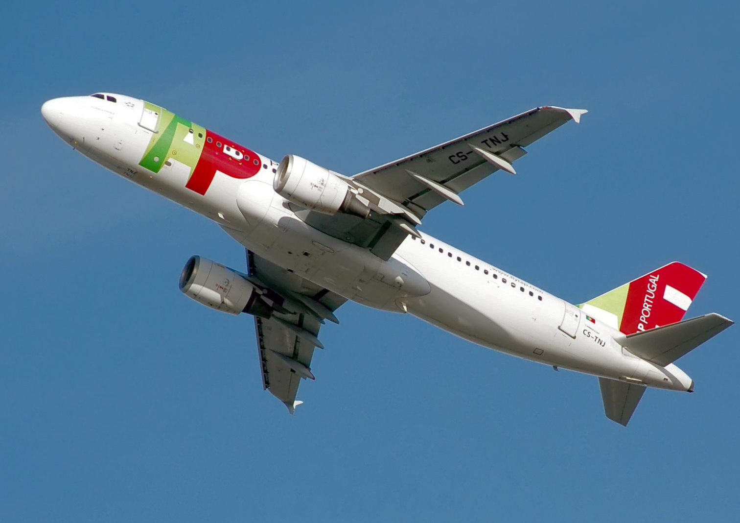 TAP Airbus A320-200 (CS-TNJ) takes off from London Heathrow Airport, England. Photographed by Adrian Pingstone in January 2007 and released to the public domain.